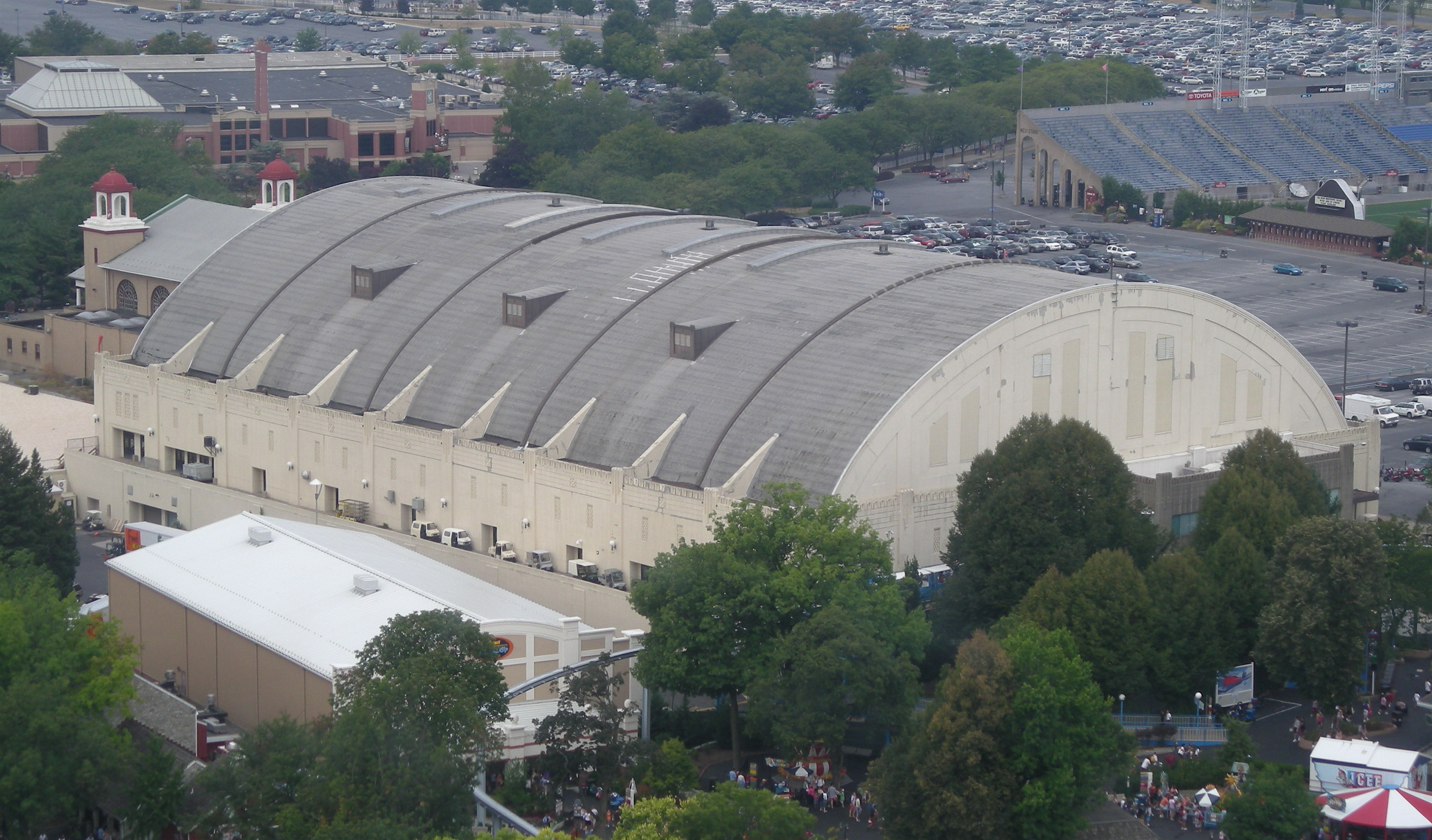 Hershey Park Arena